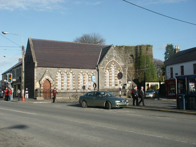 Presbyterian Church, Naas, Co Kildare